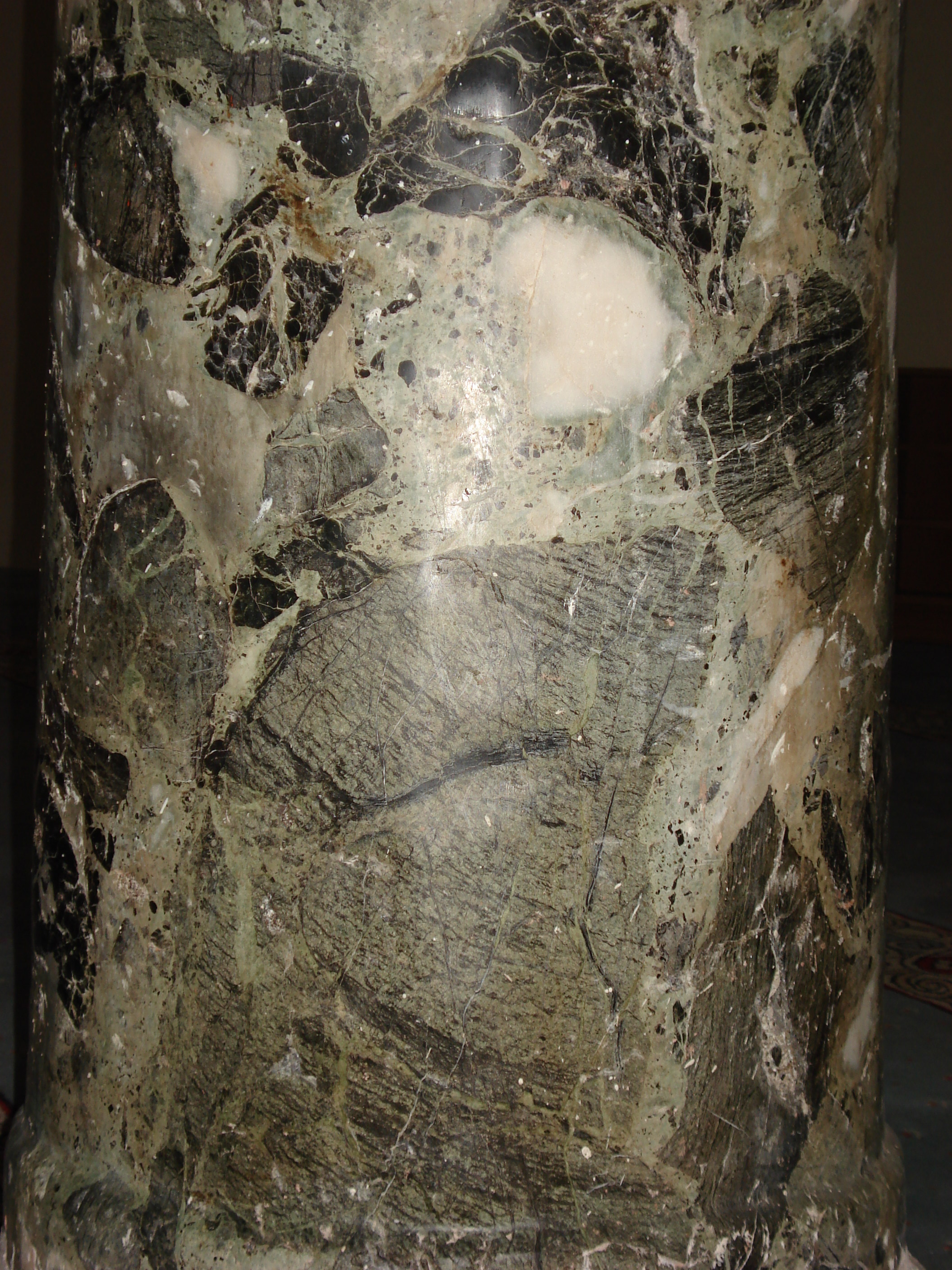 Detail of a verd antique column in the Church of SS Sergius and Bacchus ("Little Hagia Sophia"), Istanbul, Turkey.